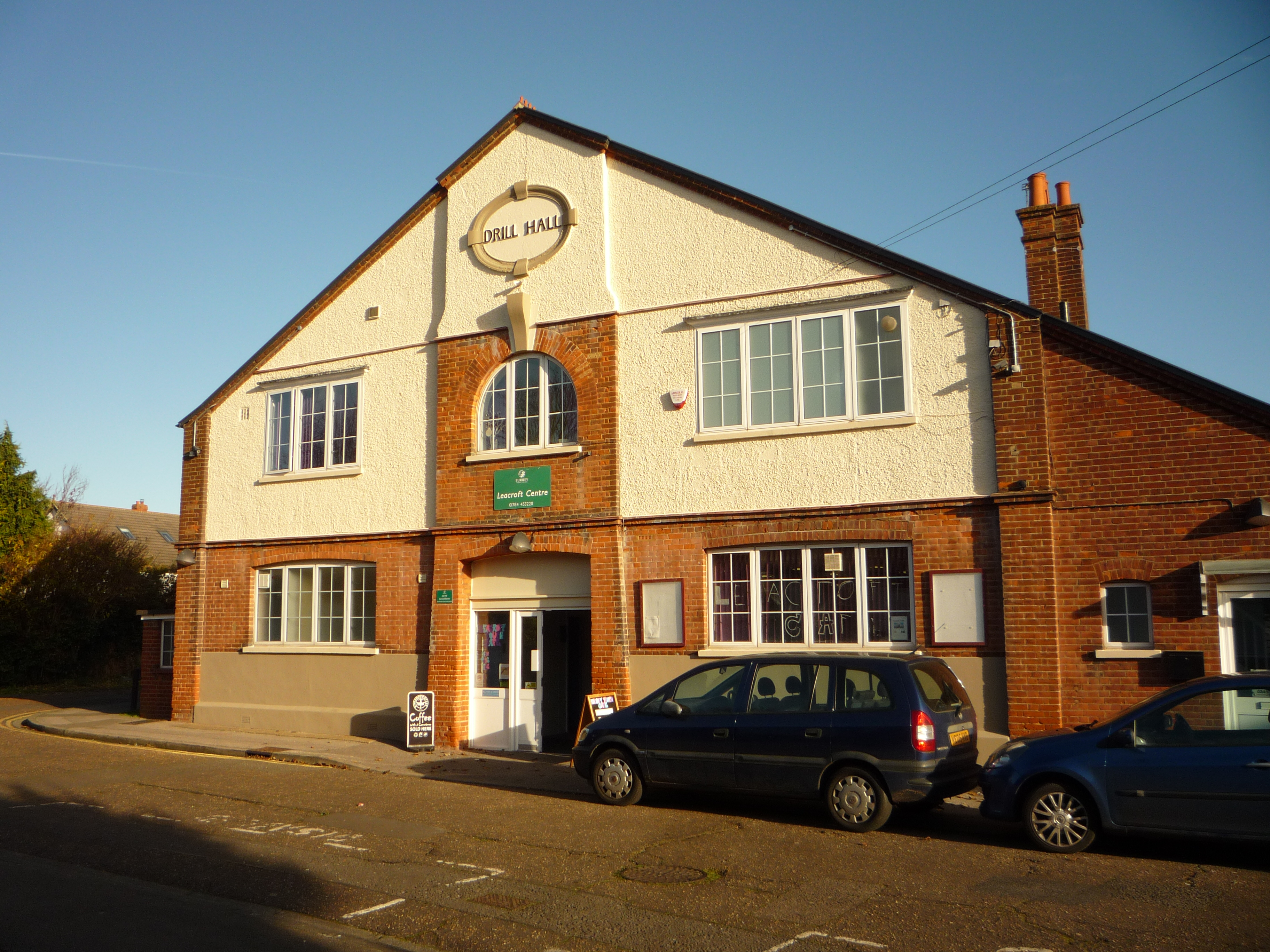 Former Territorial Army Drill Hall, Leacroft, Staines-upon-Thames